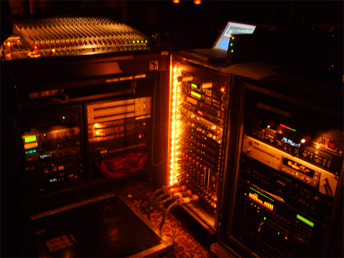 A picture I shot on November 10, 2006 at the Blues Traveler concert in Schenectady, NY.